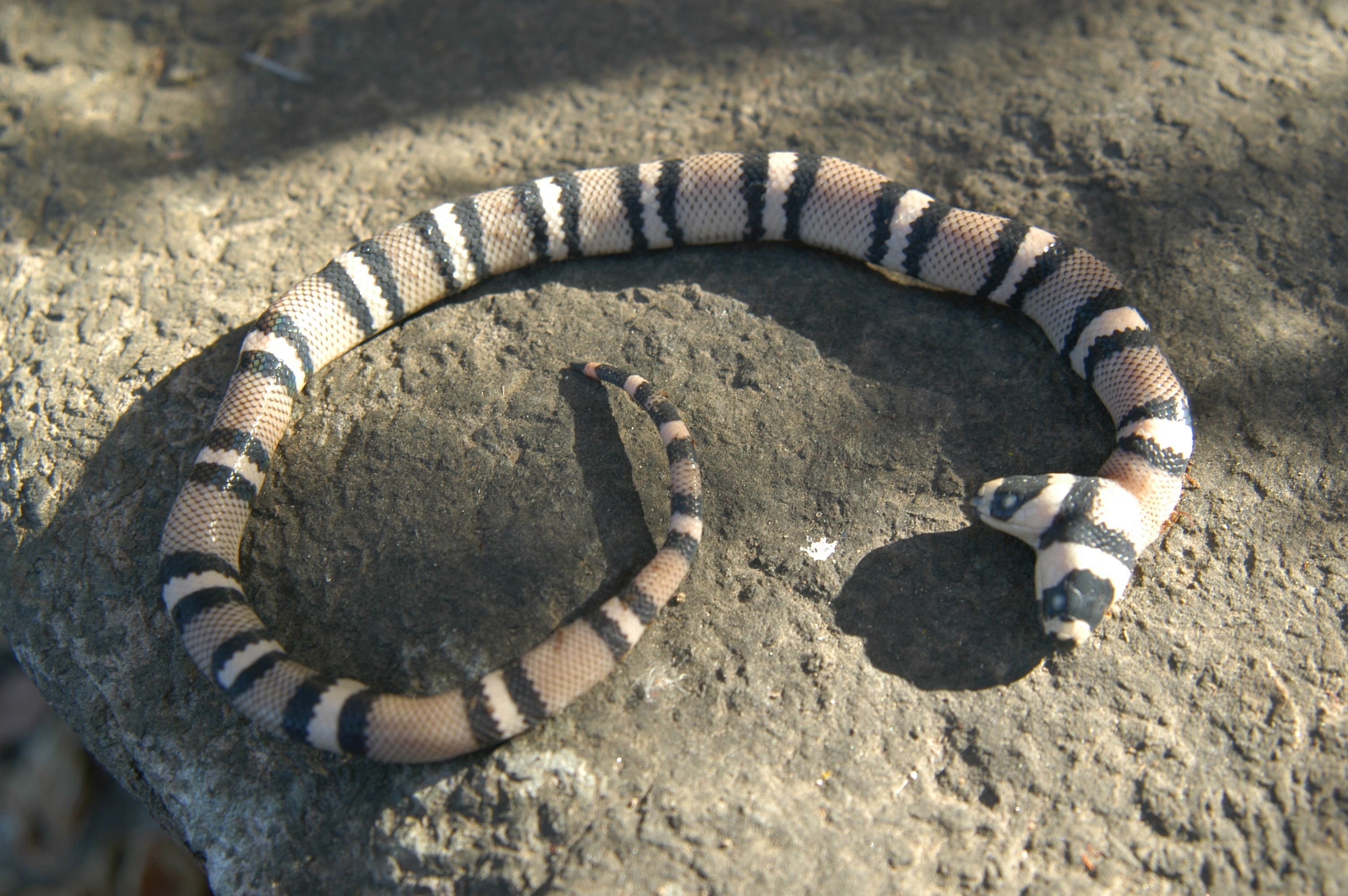 This is something you do not see every day. It is not from this area, but very different. Just thought I would give a little variety.